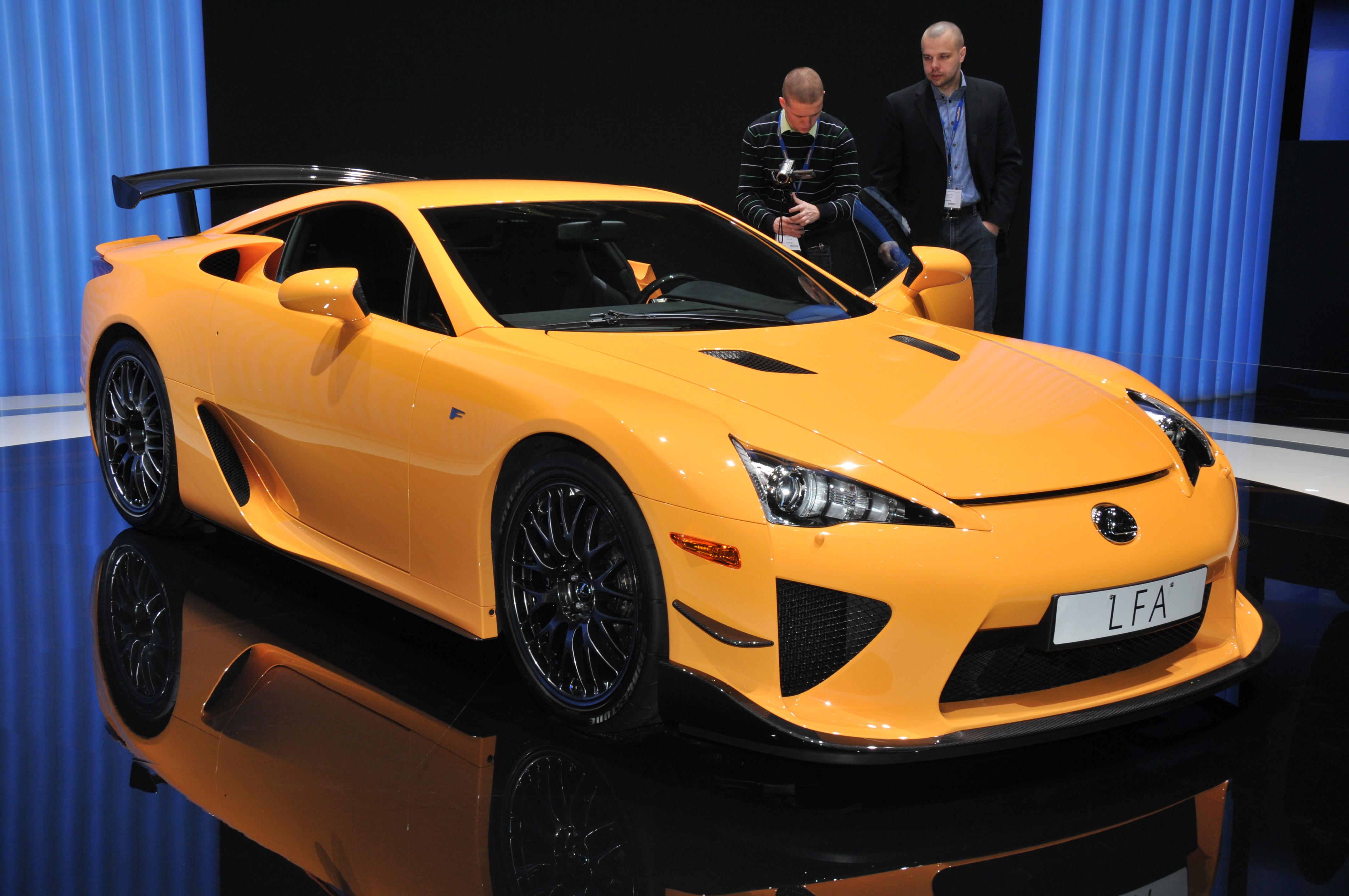 The Lexus LFA Nürburgring Package at the 2011 Geneva Motor Show. For more info and fotos, check